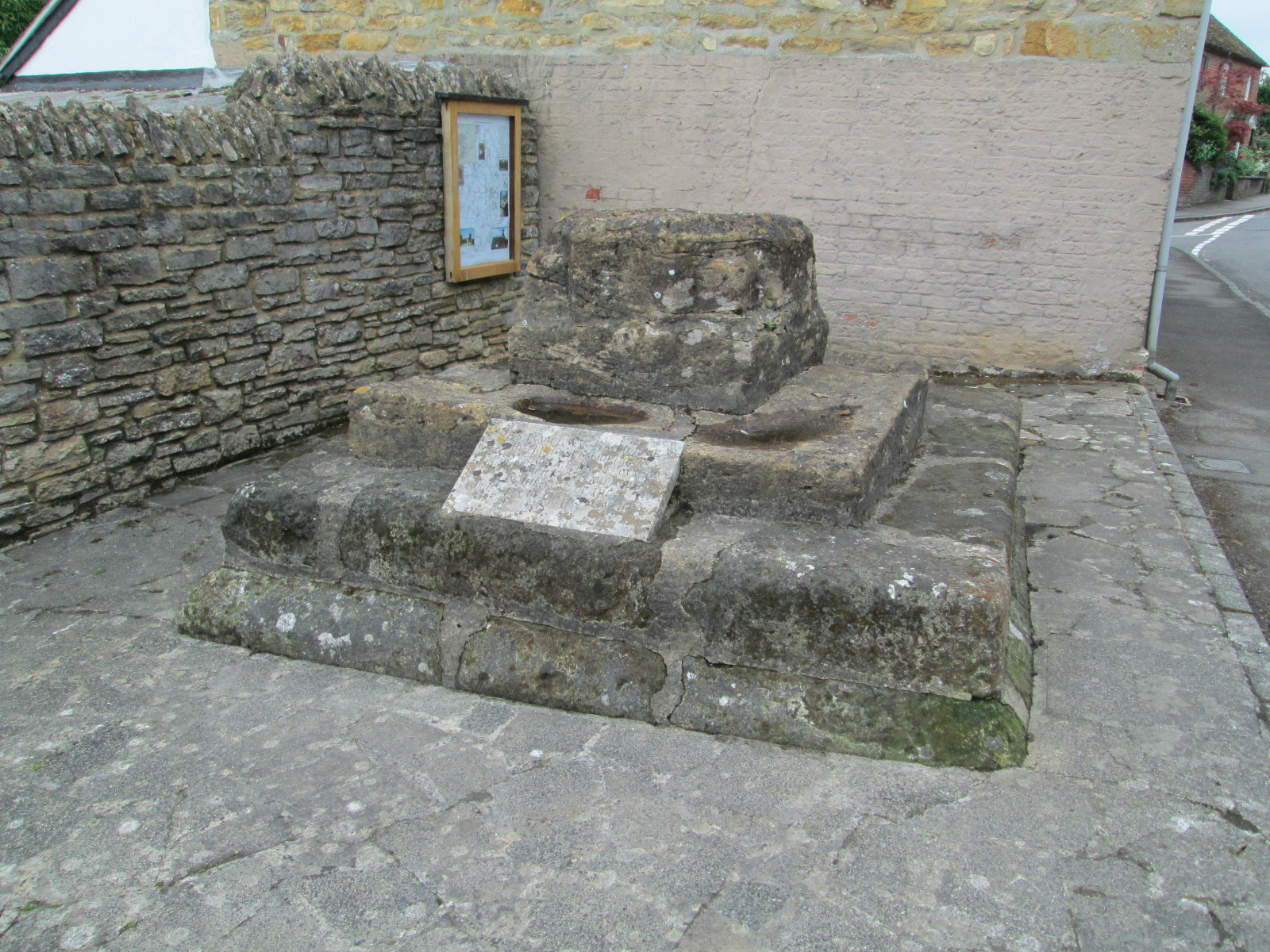 Market cross, at the centre of Okeford Fitzpaine in Dorset.